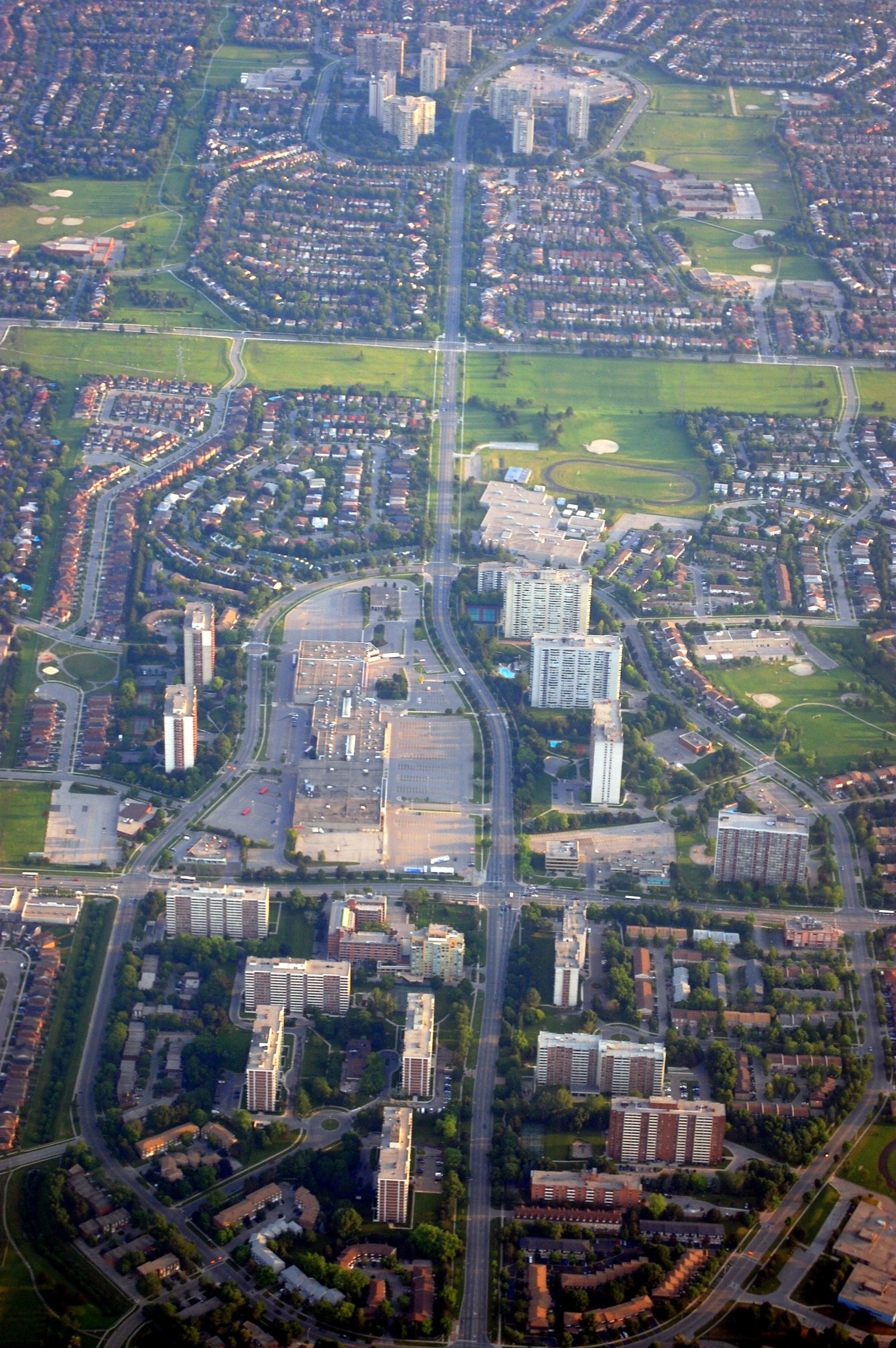 An aerial view of the L'Amoreaux neighbourhood of Toronto, 2009.